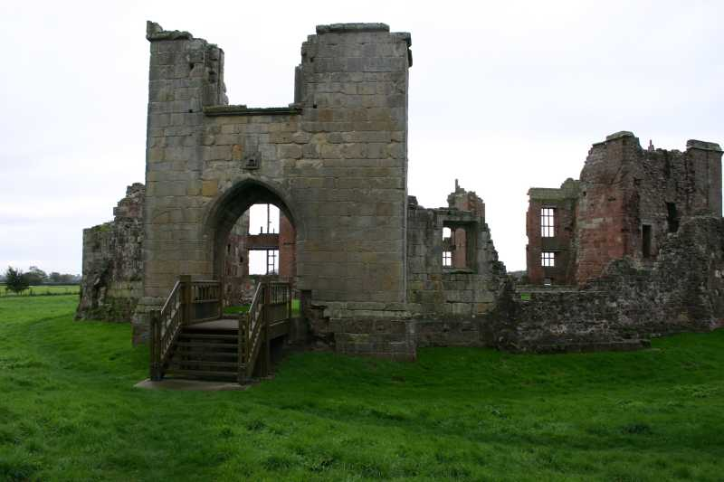 Moreton Corbet Castle (1st Phase).